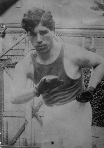 Philadelphia boxer, Young Erne, birth name High Frank Clavin